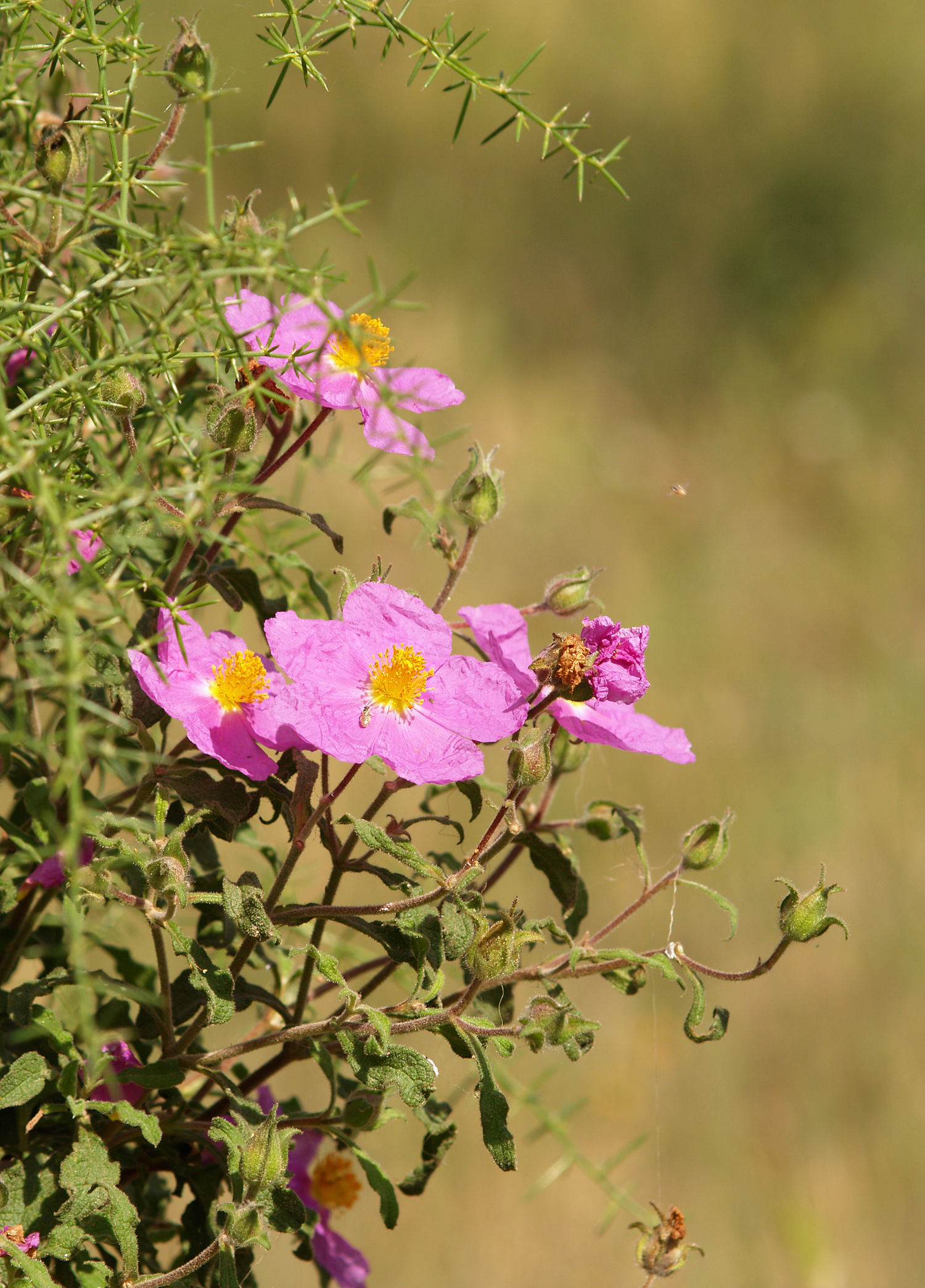 Crete Rockrose (Cistus creticus), Thasos, Greece